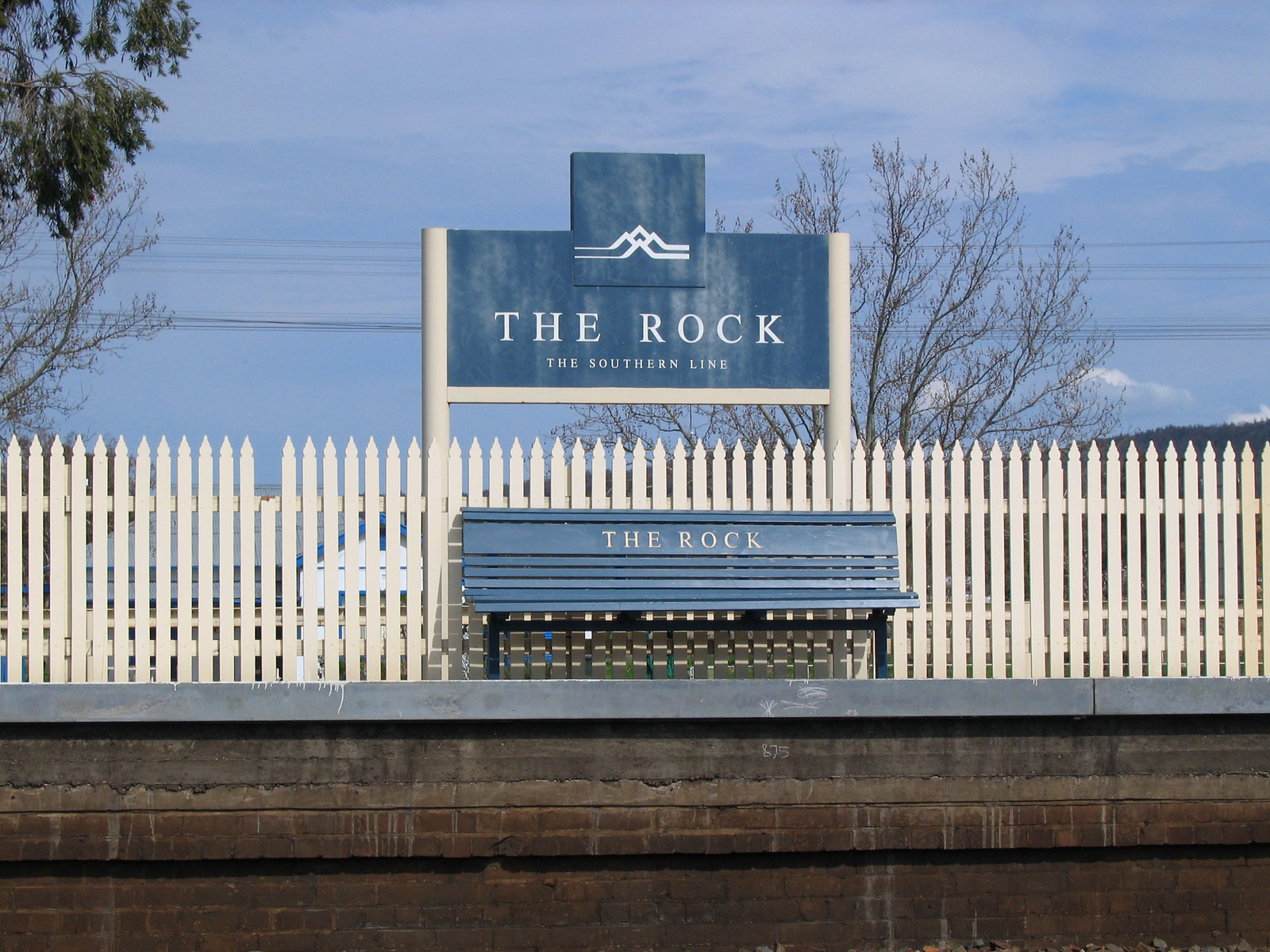 The Rock, NSW